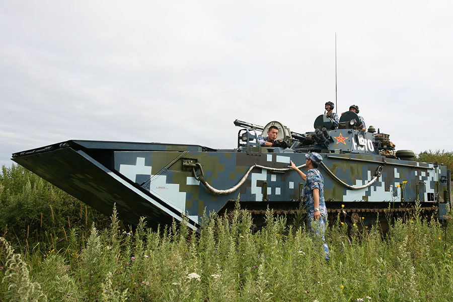 Naval landing operation held within the Russian-Chinese exercise Naval Interaction-2015